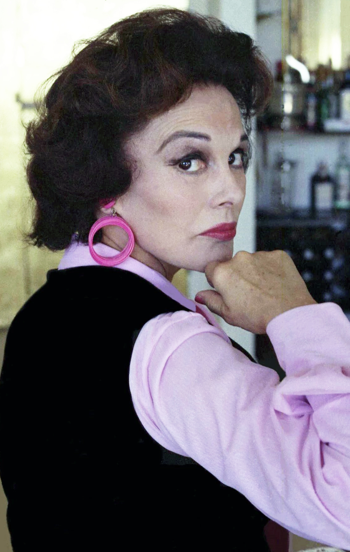 portrait of Joseph Cotten & Patricia Medina